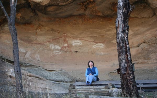 This photo shows the painting of "Baiame's cave", near Singleton, NSW. Notice the length of his arms which extend to the two trees either side. This was the Creator god of the Wonnarua people.